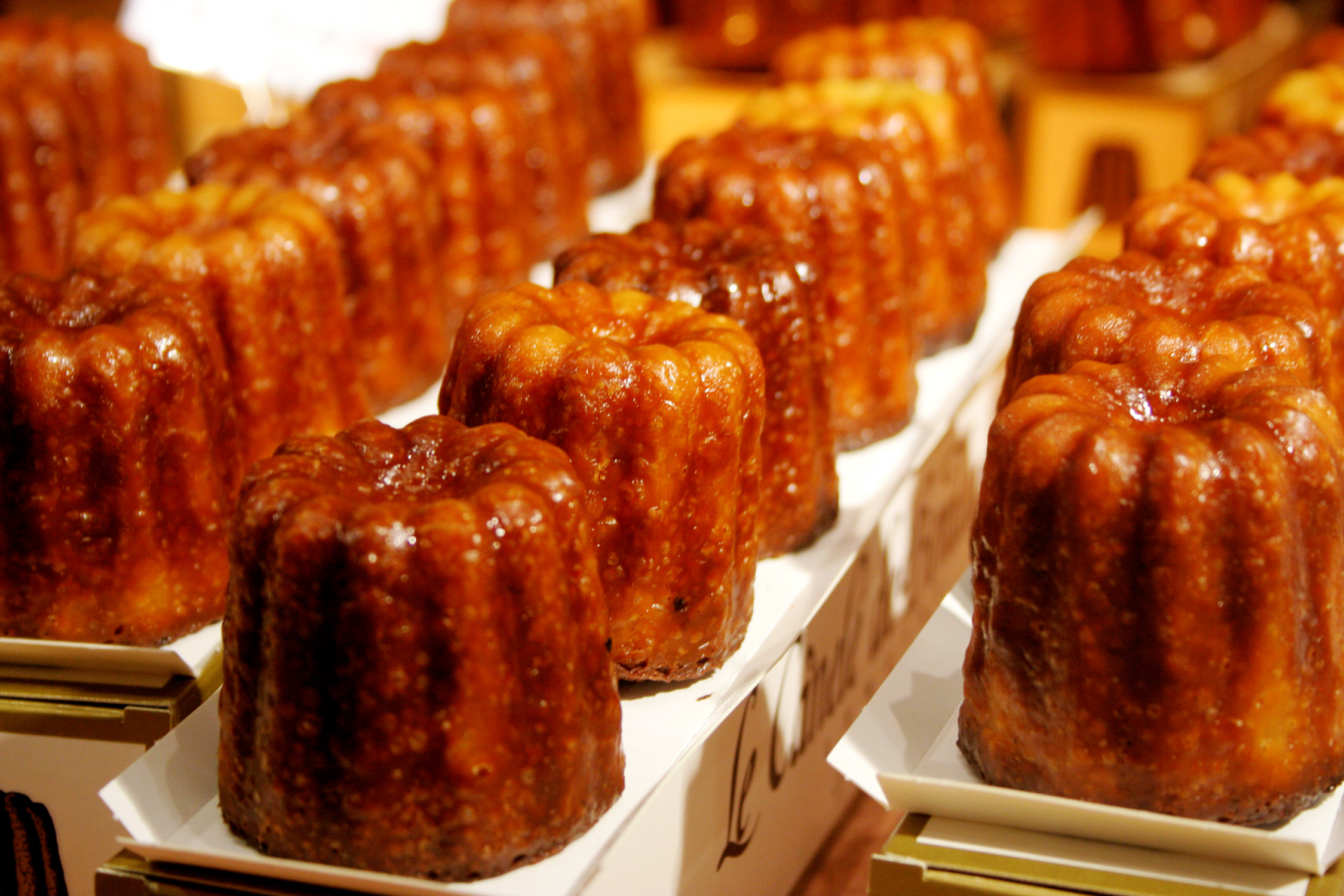 Canelé. Author: Robyn Lee (user roboppy) Date: November 4, 2006 URL: Uploaded by author